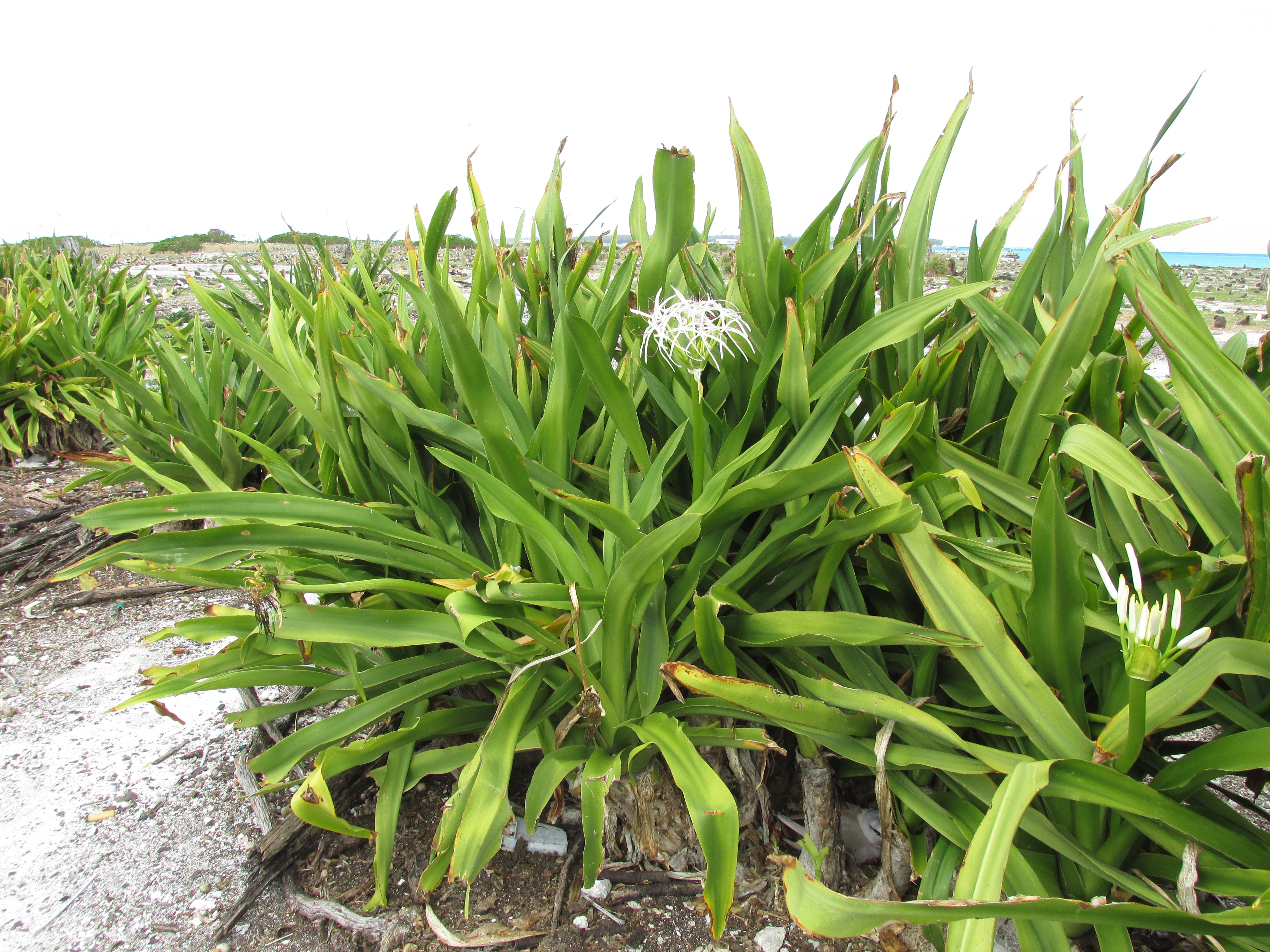 Crinum asiaticum (Spider lily) Flowering habit at Near Pier Eastern Island, Midway Atoll, Hawaii. April 03, 2015 #150403-1470 Image Use Policy